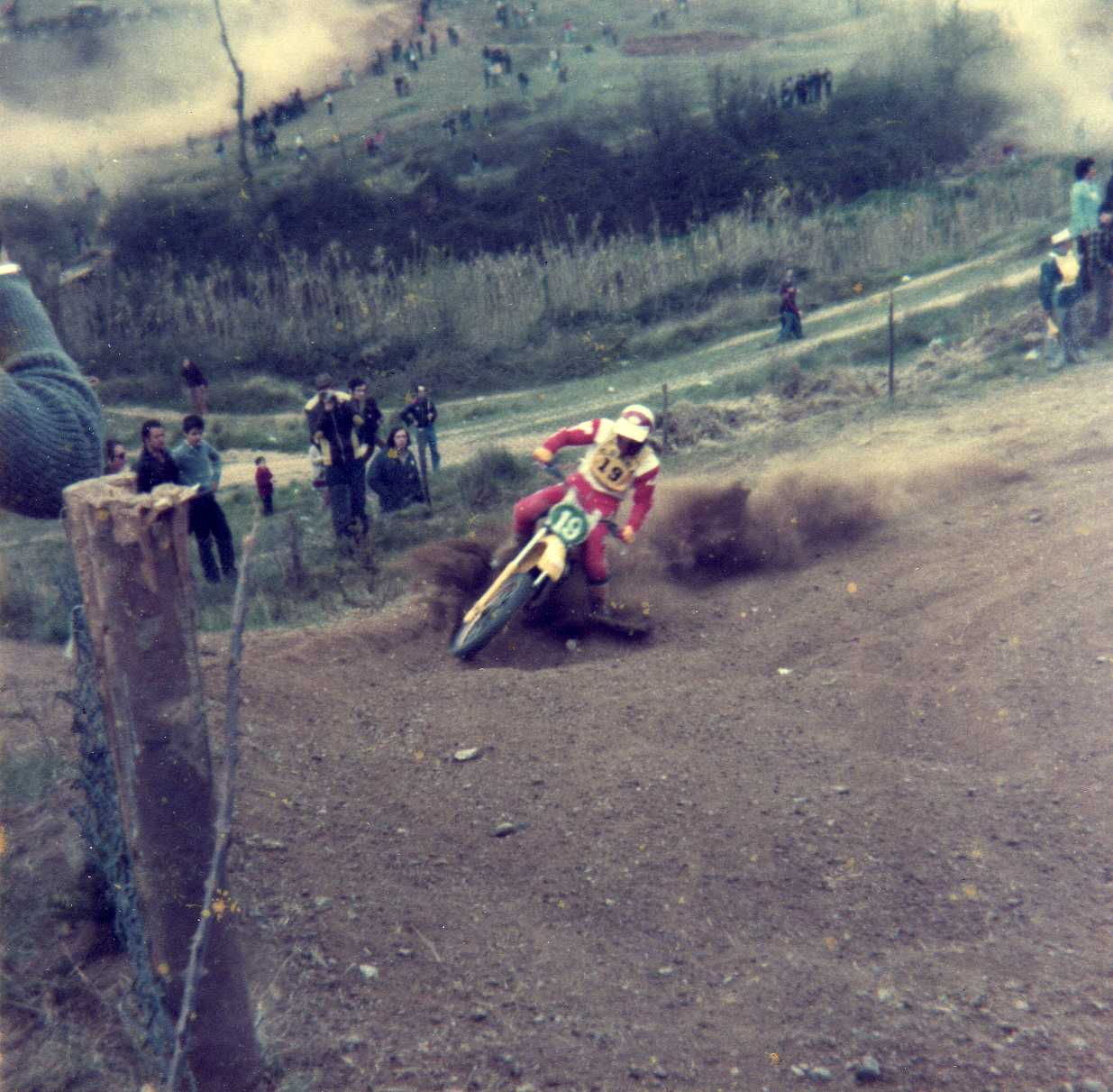 Marty Moates (Yamaha) at Circuit del Vallès, Sabadell-Terrassa (Catalonia), during the 1979 spanish MX GP 250cc.